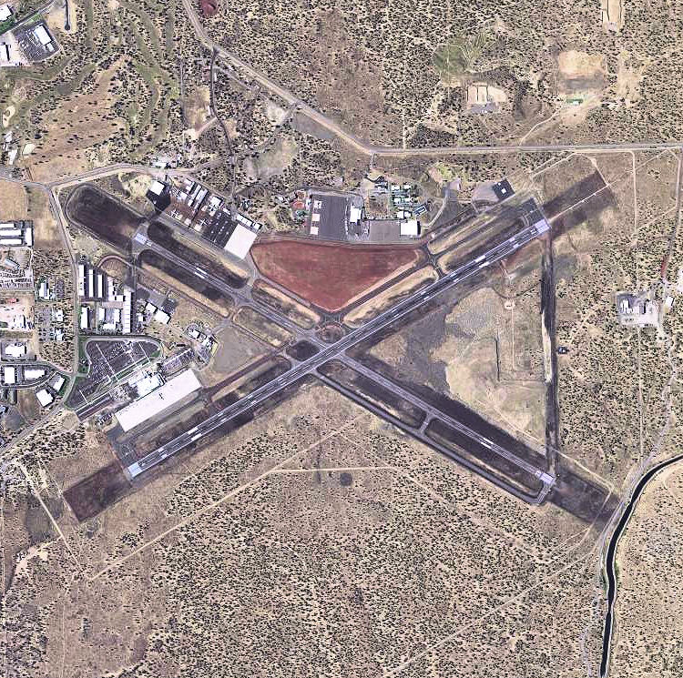 USGS digital orthophoto of Roberts Field, an airport in Oregon